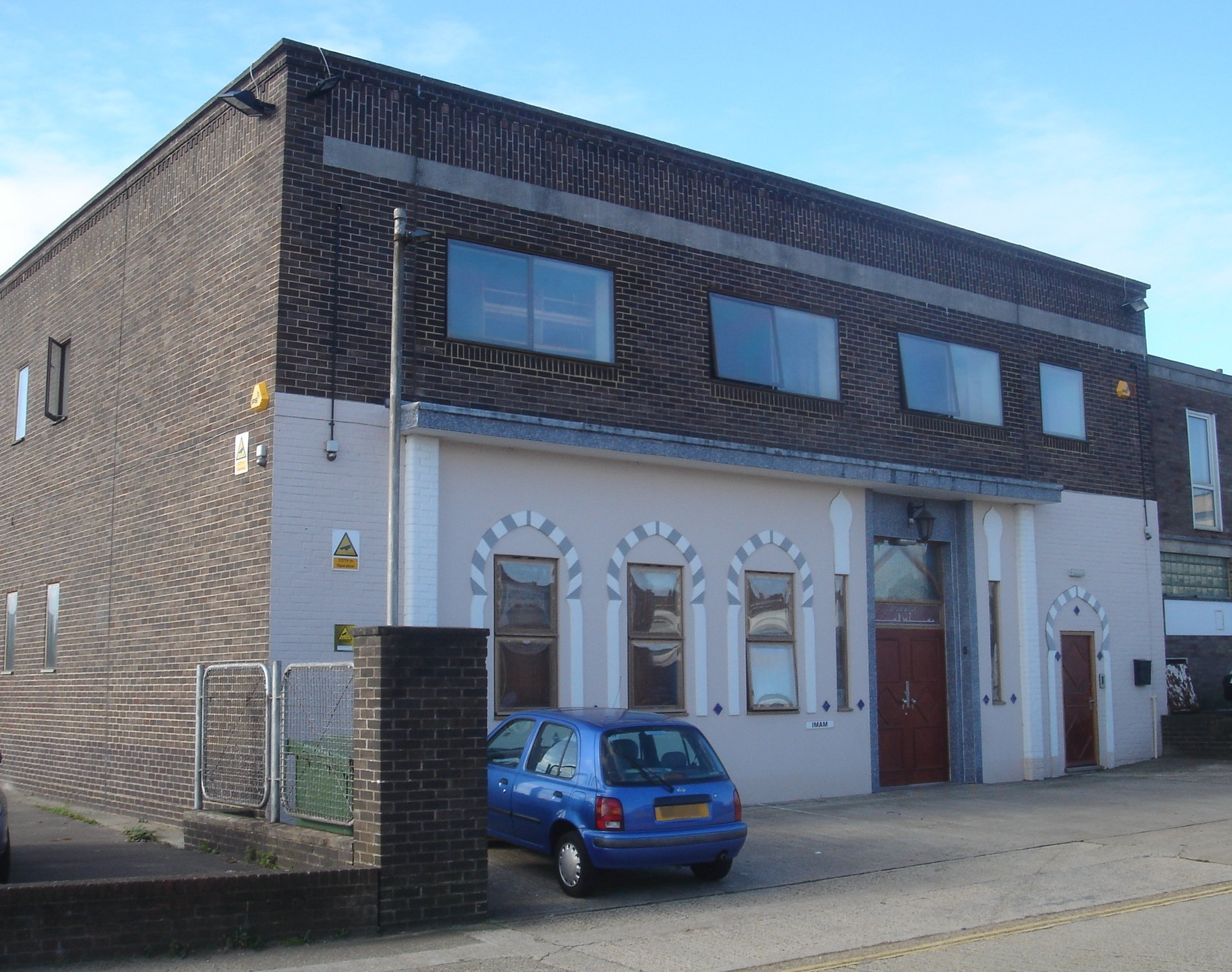 Masjid Assalam Mosque, Ivy Arch Road, Worthing, West Sussex, England. Incorporates an Islamic cultural centre.